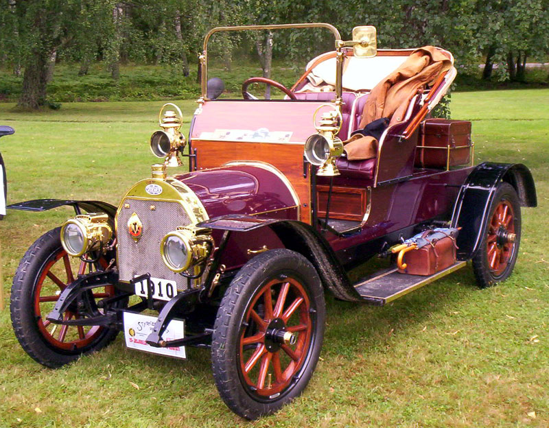 Stoewer LT4 1910